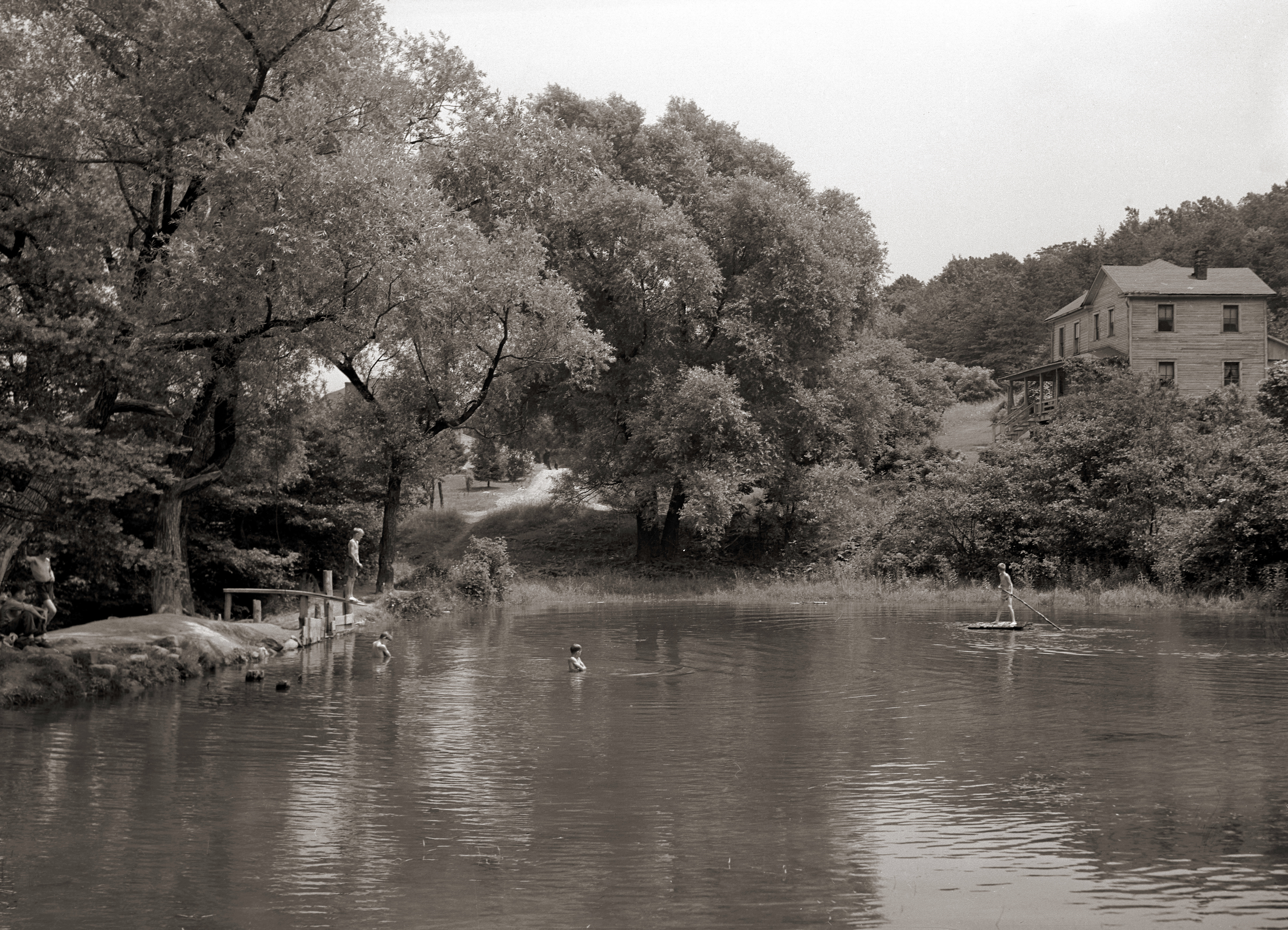 Boys swimming in a pond located near Pine Grove Mills, Pennsylvania.